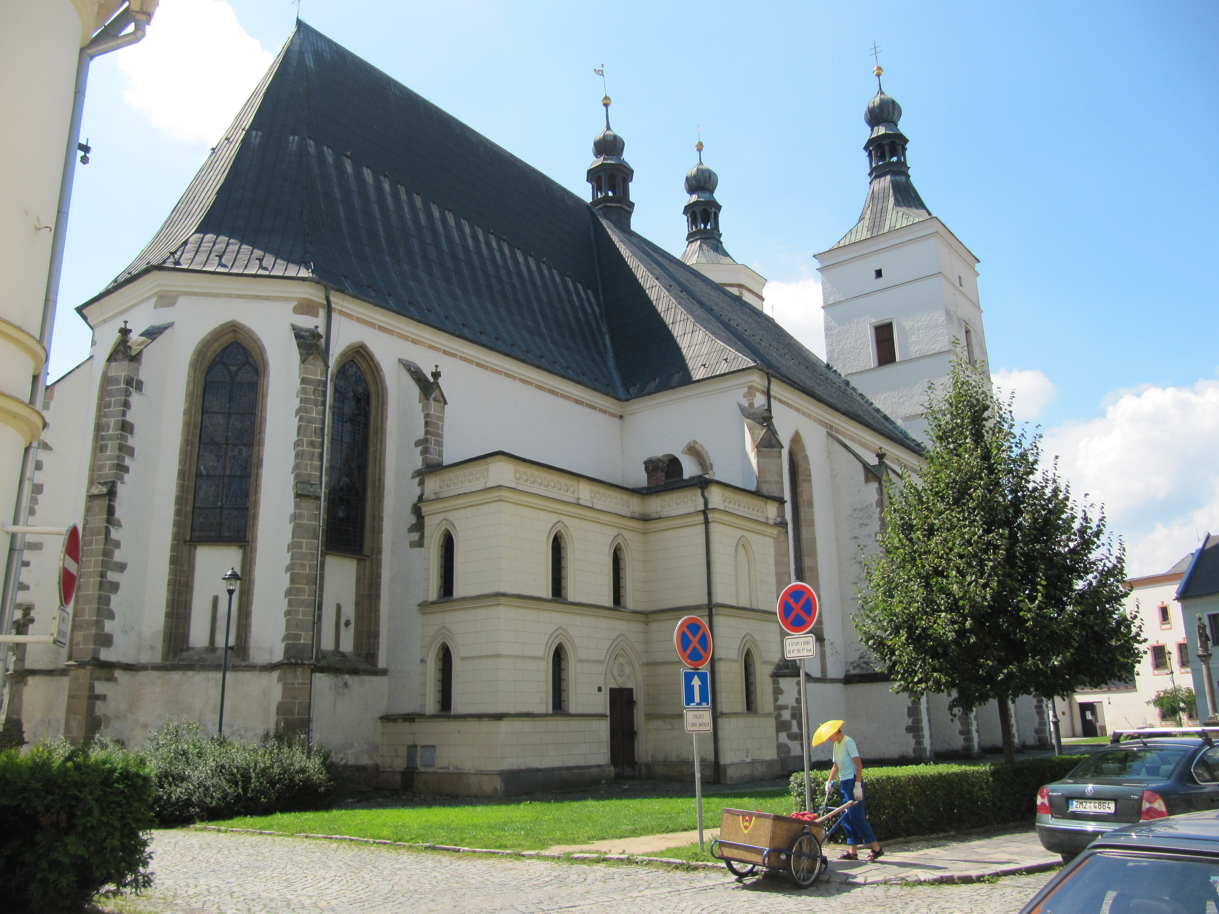 Uničov, Olomouc District, Czechia.